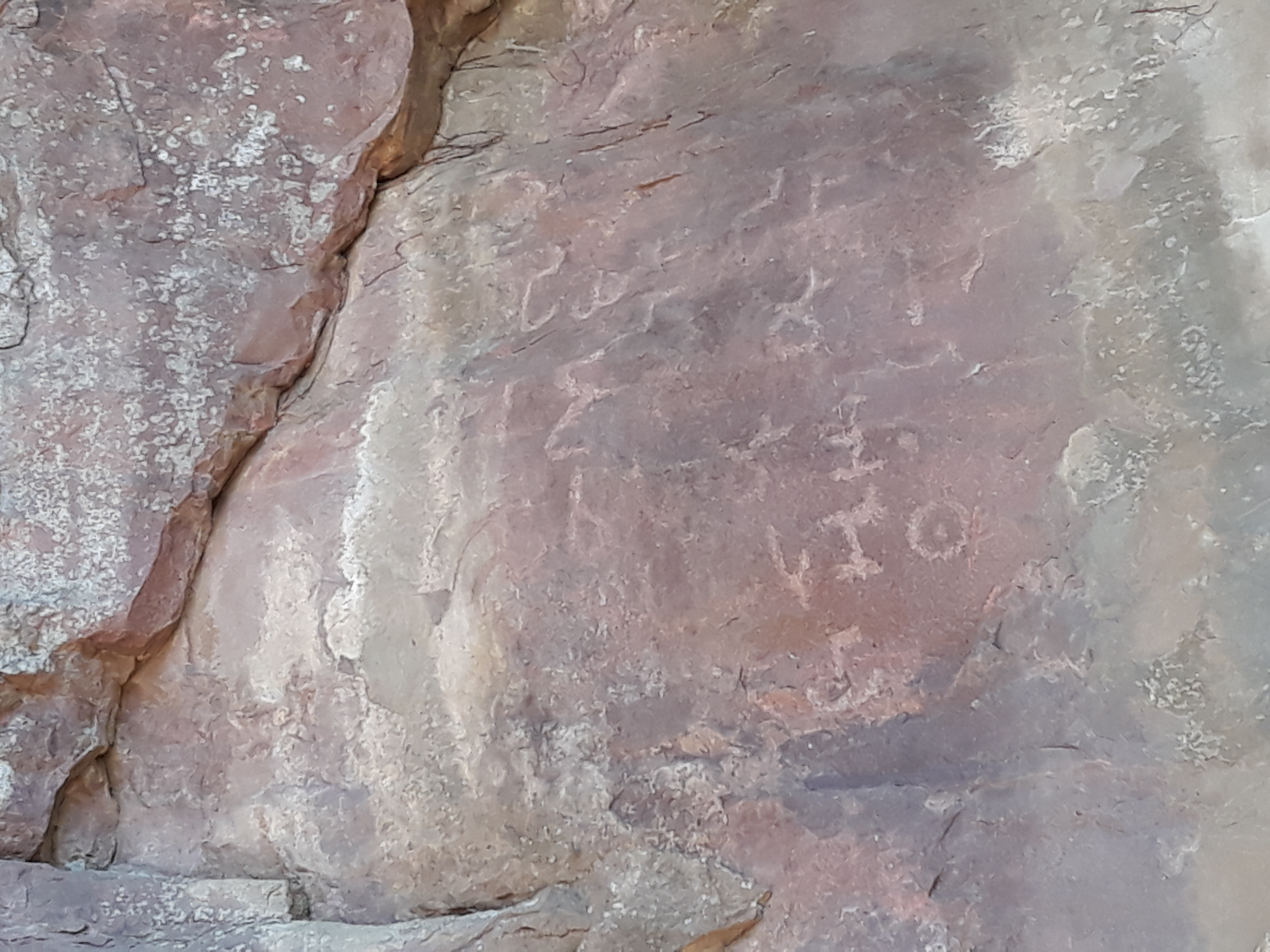 This is Bramhi inscription at Panguraria, Madhya Pradesh. This states that, Piyadassi King, while he was prince, visited this place on pleasure tour, with his girl friend